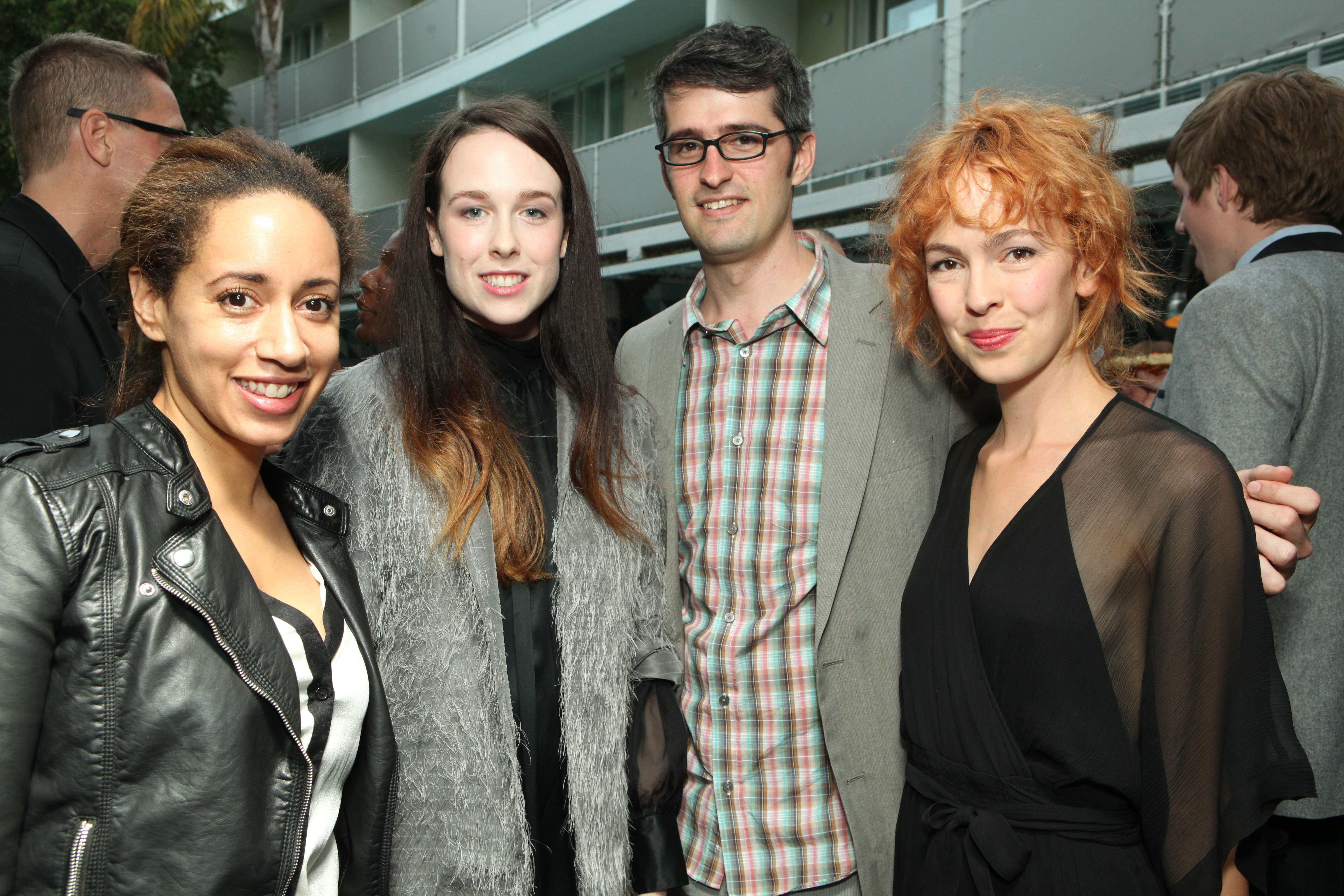 (L-R) Margaret Lester, Allie Hughes, Bryan Atkinson and Brittany Allen. To mark 25 years of inspiring exceptional talent and strong cross border partnerships, CFC celebrated the great friends and supporters who represent our rich film and TV culture. The event, held at the Avalon Hotel Beverly Hills, with CFC Board Member Eugene Levy acting as master of ceremonies, toasted the accomplishments of CFC's over 1,500 alumni pushing boundaries internationally in film, television, screen acting, music, and digital media. Photo by Rebecca Sapp.